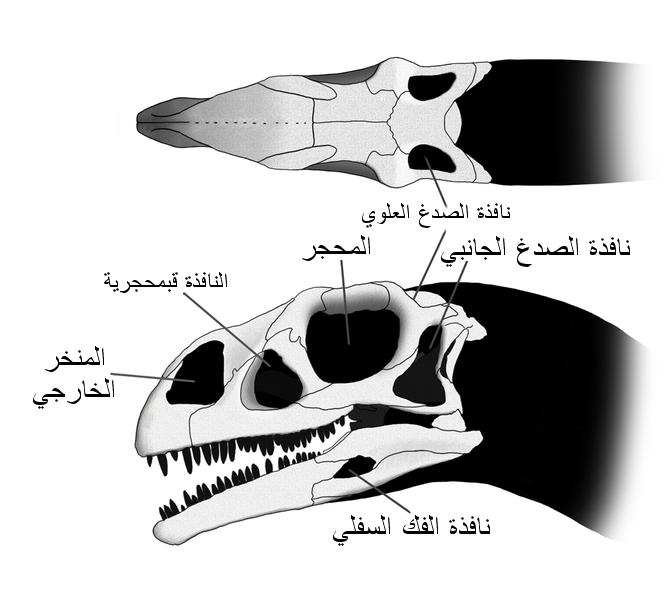 Massospondylus skull diagram, :• Showing the various holes in the skull (or fenestra). :• Based on [1] and images in 'The Dinosauria Second Edition' 2004. NOTE: I often update my images. If you want to have any of my images on a website, please (if possible) don’t host/save it to the website server. I’d prefer it if the image's Wikimedia URL is used. This means that if I update an image, it will be updated on the site as well. Thanks.